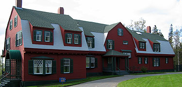 Taken from - as a product of the National Park Service, it's a product of the U.S. government, and therefore in the public domain The Roosevelt cottage was built for James and Sara Roosevelt in the early nineteenth century after their marriage. They then a few years later decided to bring their new born son Franklin Delano. He was their most politically accomplished child and went on to become the president of the United States. Over the years he Franklin continued coming back to the cottage and eventually passed it on to his son Theodore or Teddy. Now the parc belongs to both the American and Canadian government and is open to the public to visit as a museum.